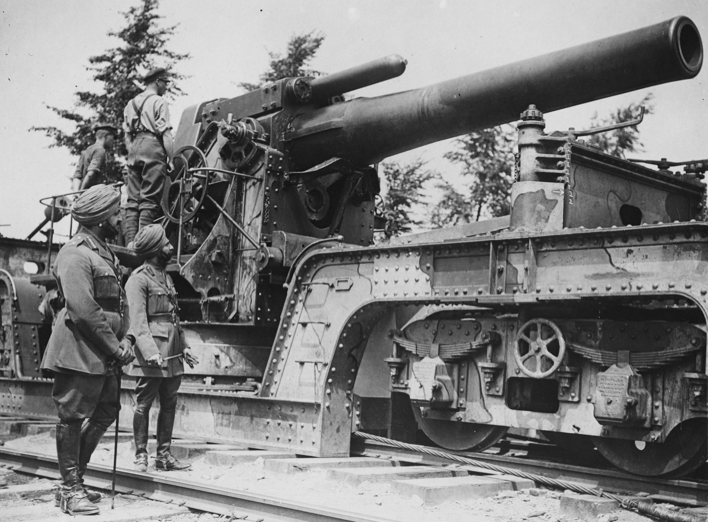 The Maharaja of Patiala, Bhupinder Singh, inspects a BL 12 inch Mk III railway howitzer near Borre, France. Note how the carriage has been lowered to the ground to steady it when firing.